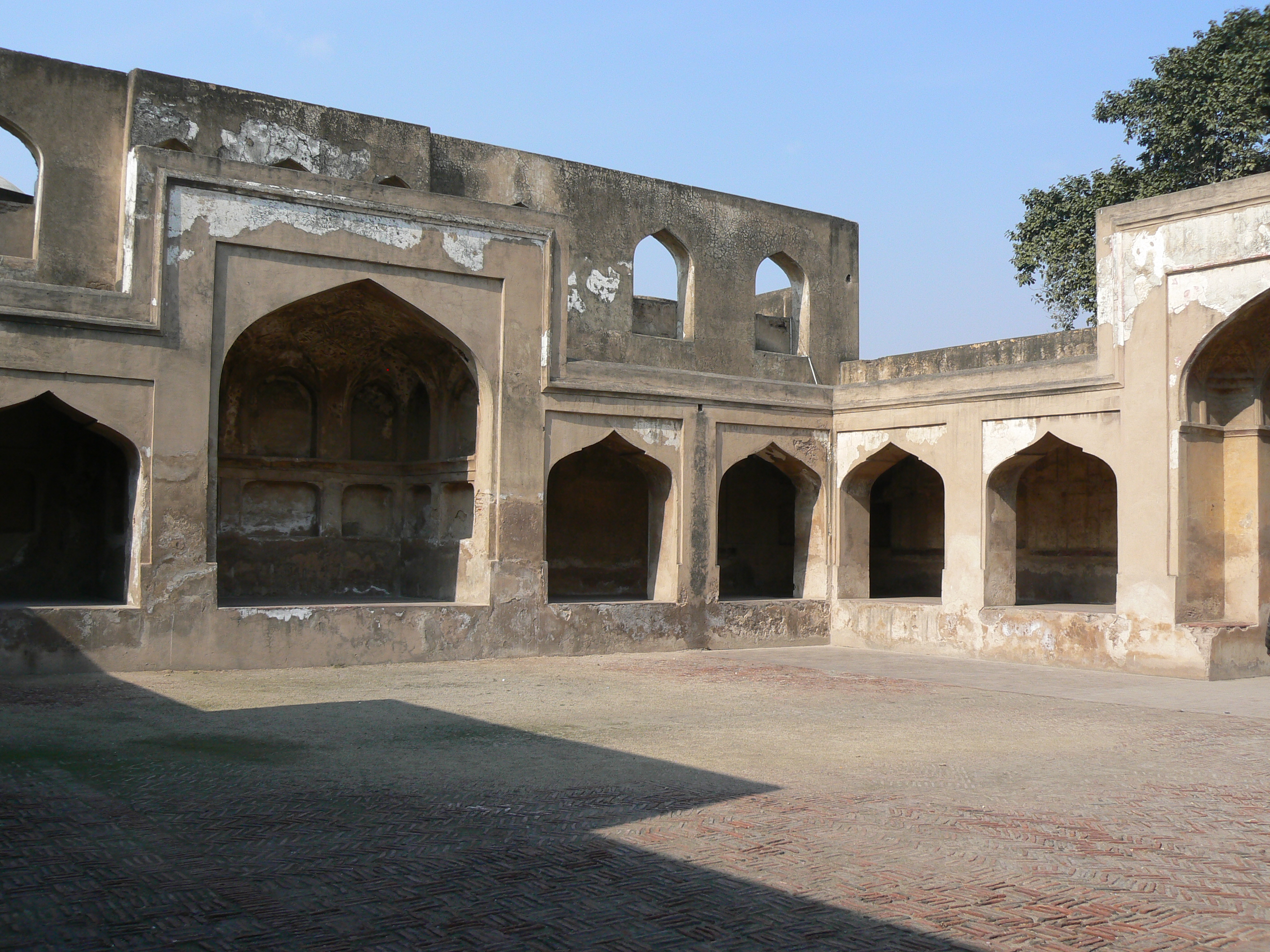 Badshai Fort:Makatib Khana (Secretariat), built by Jahangir in 1617 -18, at Lahore Fort.